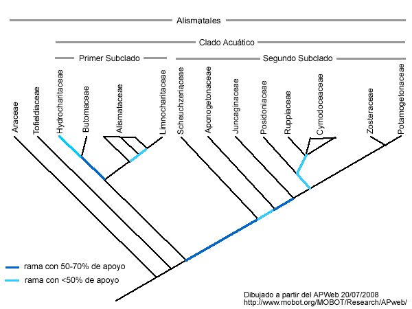 Alismatales cladogram, drawn from APWeb